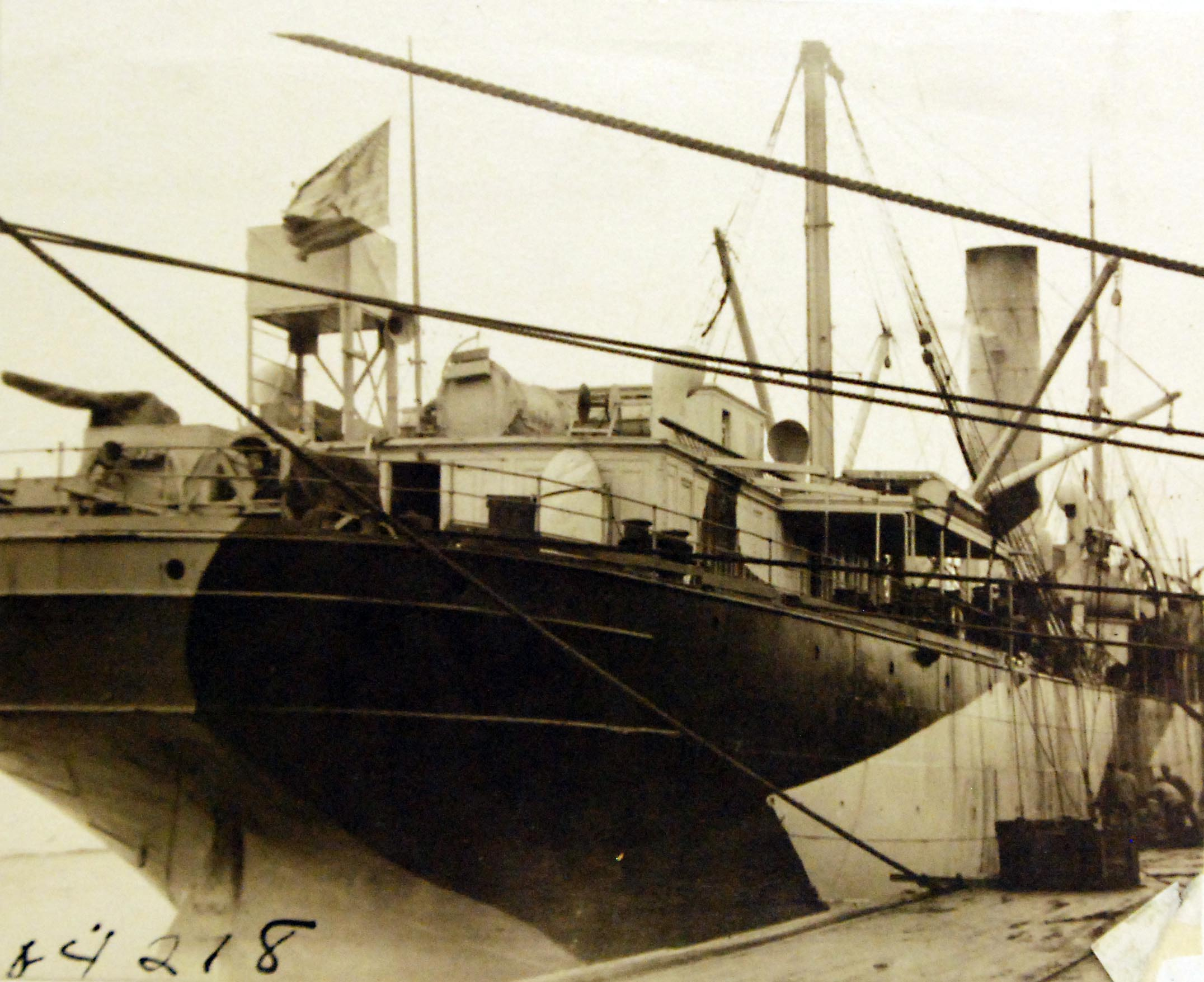 Lot-2916-5: Russian Intervention, 1918-1920. Unloading supplies from SS Ascutney. Photograph received January 20, 1919. American Red Cross Collection. Courtesy of the Library of Congress. (2016/07/01).